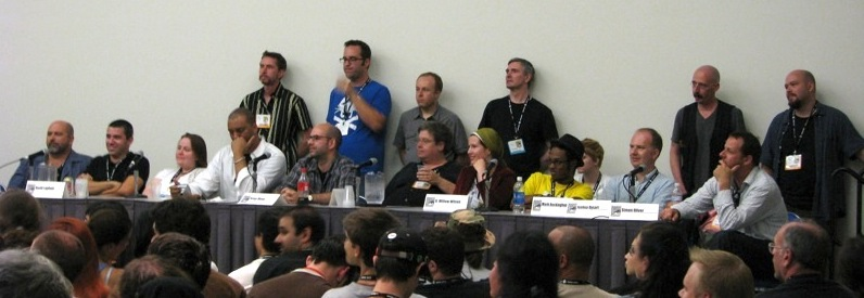 Vertigo Comics panel at ComicCon 2007. From far left, seated: Matt Wagner; unknown; Pia Guerra; Tony Akins; Brian Wood; Bill Willingham; G. Willow Wilson; Ron Wimberly; Mark Buckingham; Simon Oliver (obscuring Joshua Dysart in pink shirt). Standing: Steven T. Seagle; unknown; unknown; Mike Carey; Brian Azzarello; Jason Aaron.